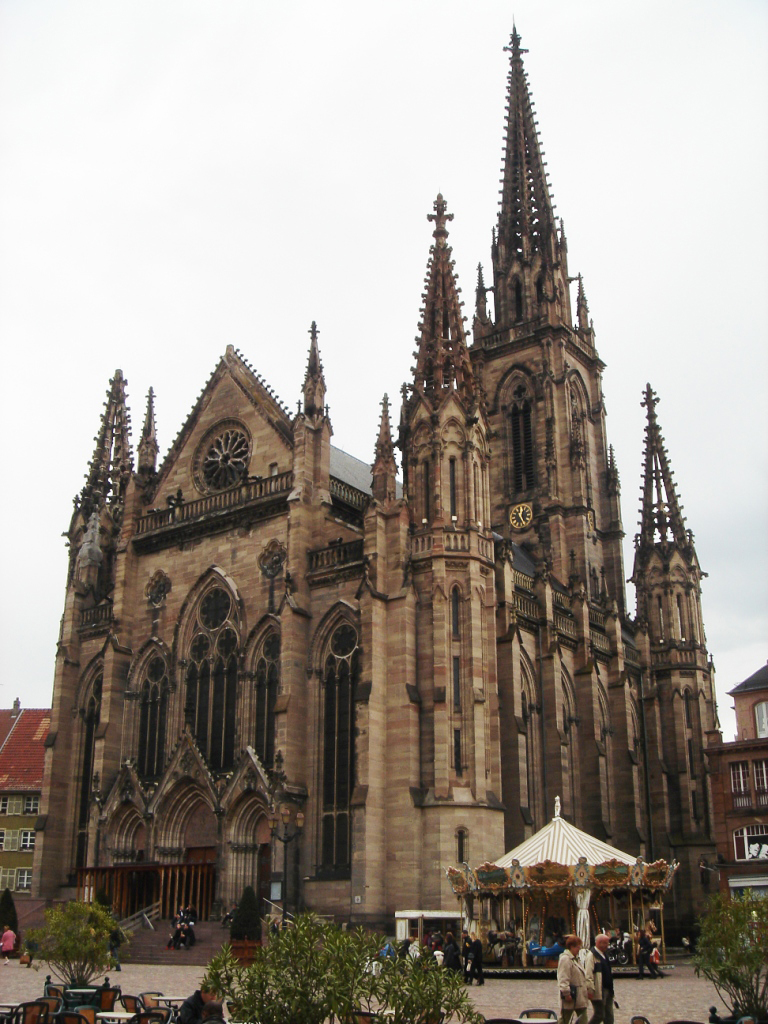 Mulhouse Temple Saint-Etienne